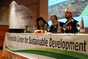 Interfaith Climate Change Panel